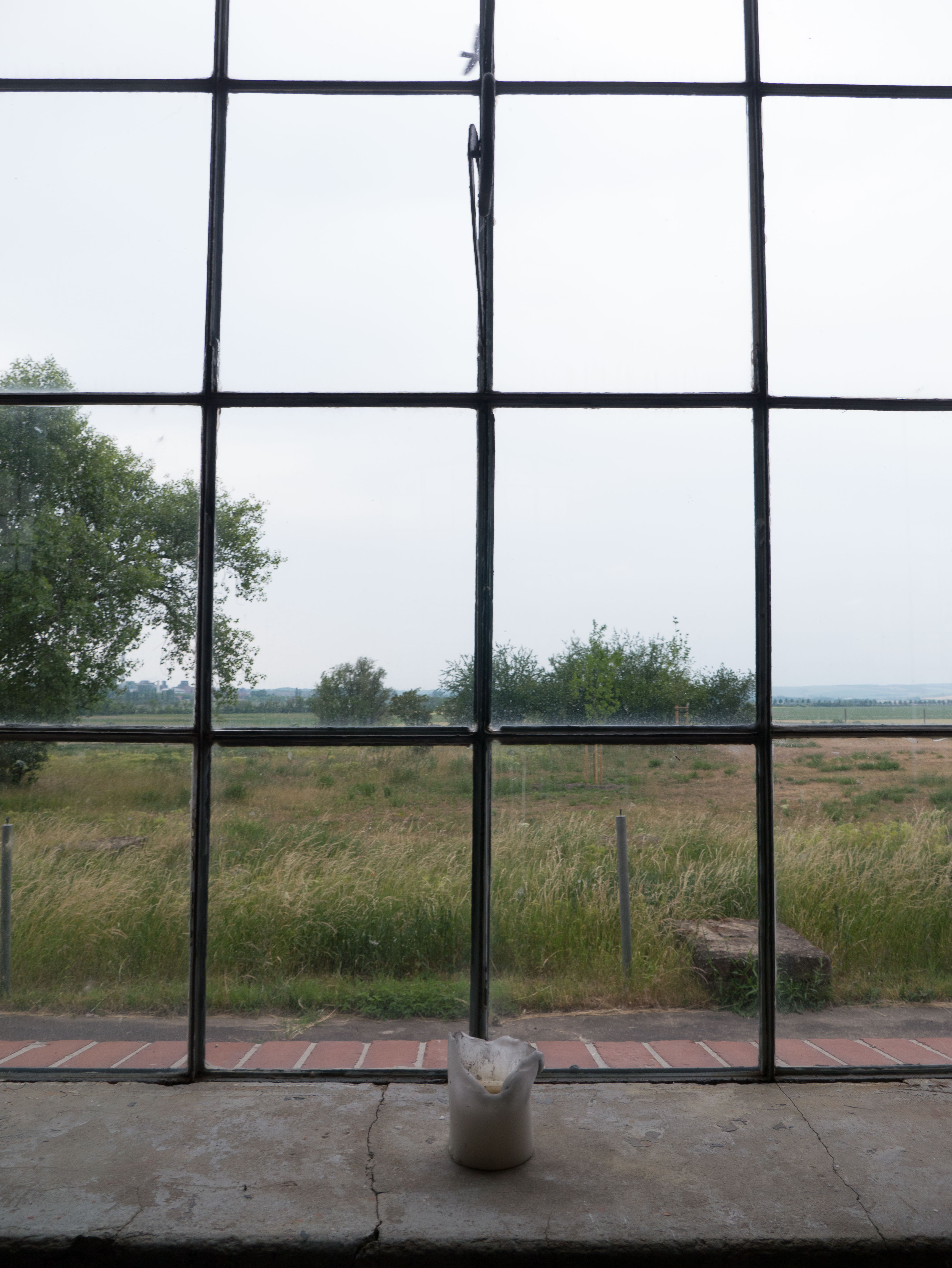 Window KZ-Gedenkstätte Wansleben